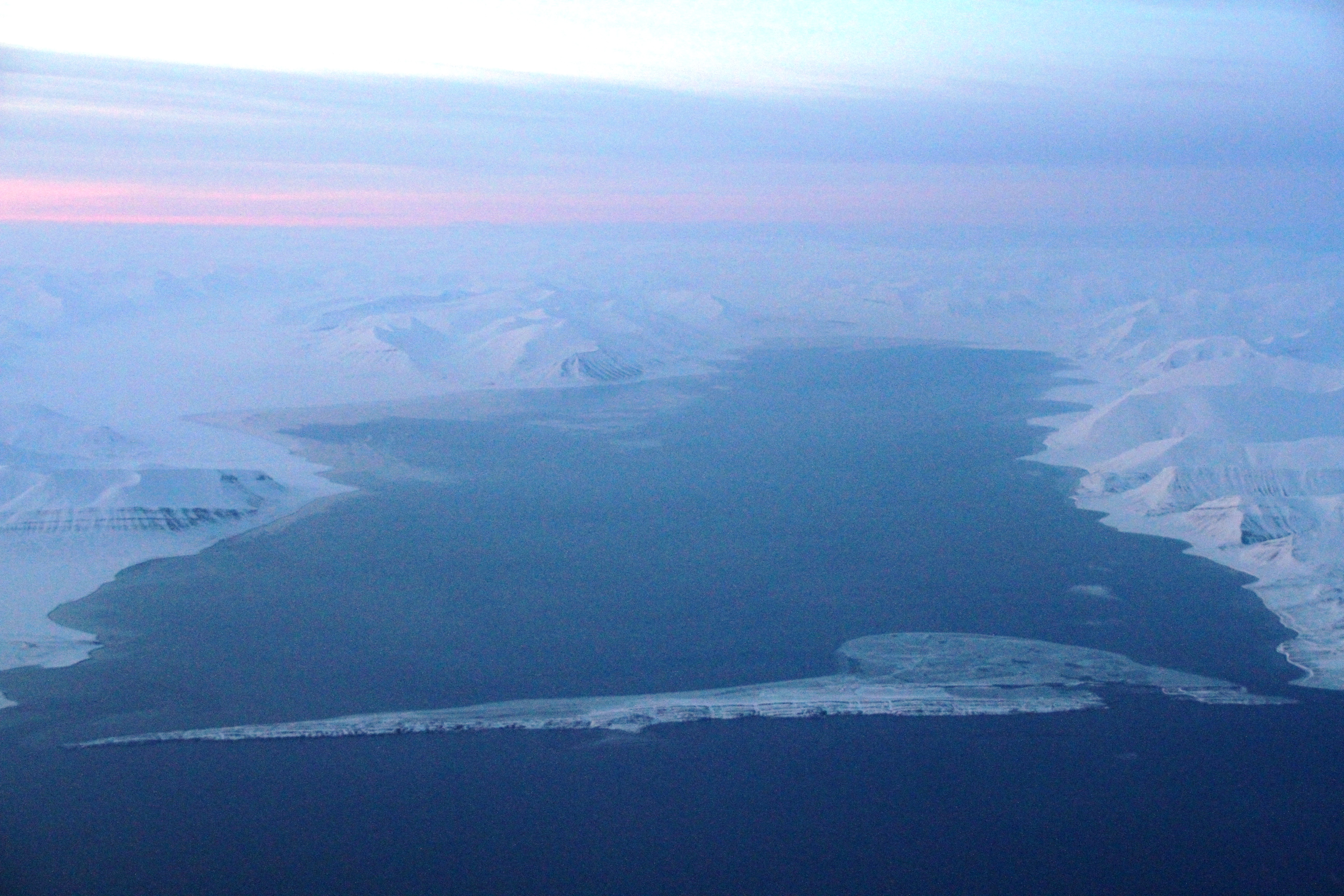 Nathorst Land is the south-central part of Spitsbergen, east of Bellsund. The photo is taken from the west towards east, in the middle of the night. Svalbard, Norway.